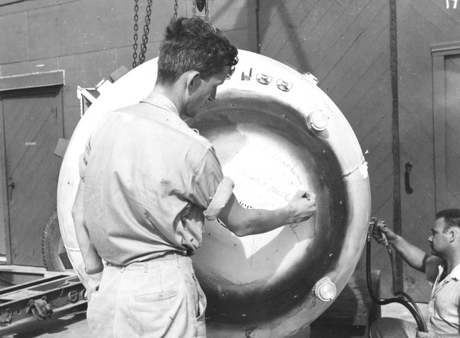 Dr. Norman Ramsey signing off the atomic bomb that was dropped on Nagasaki, Japan, in 1945.